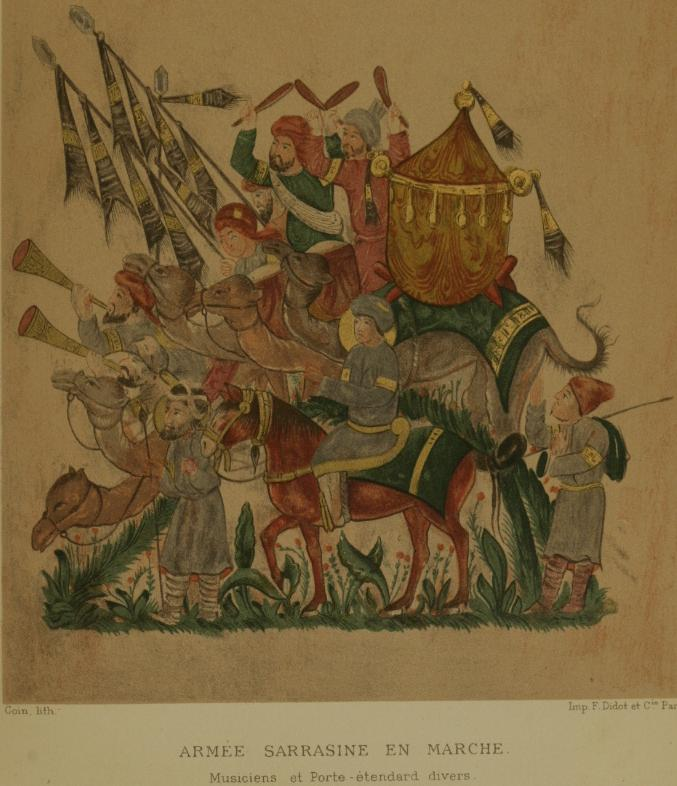 Saracen Army on the March with Musicians and Standard-bearers